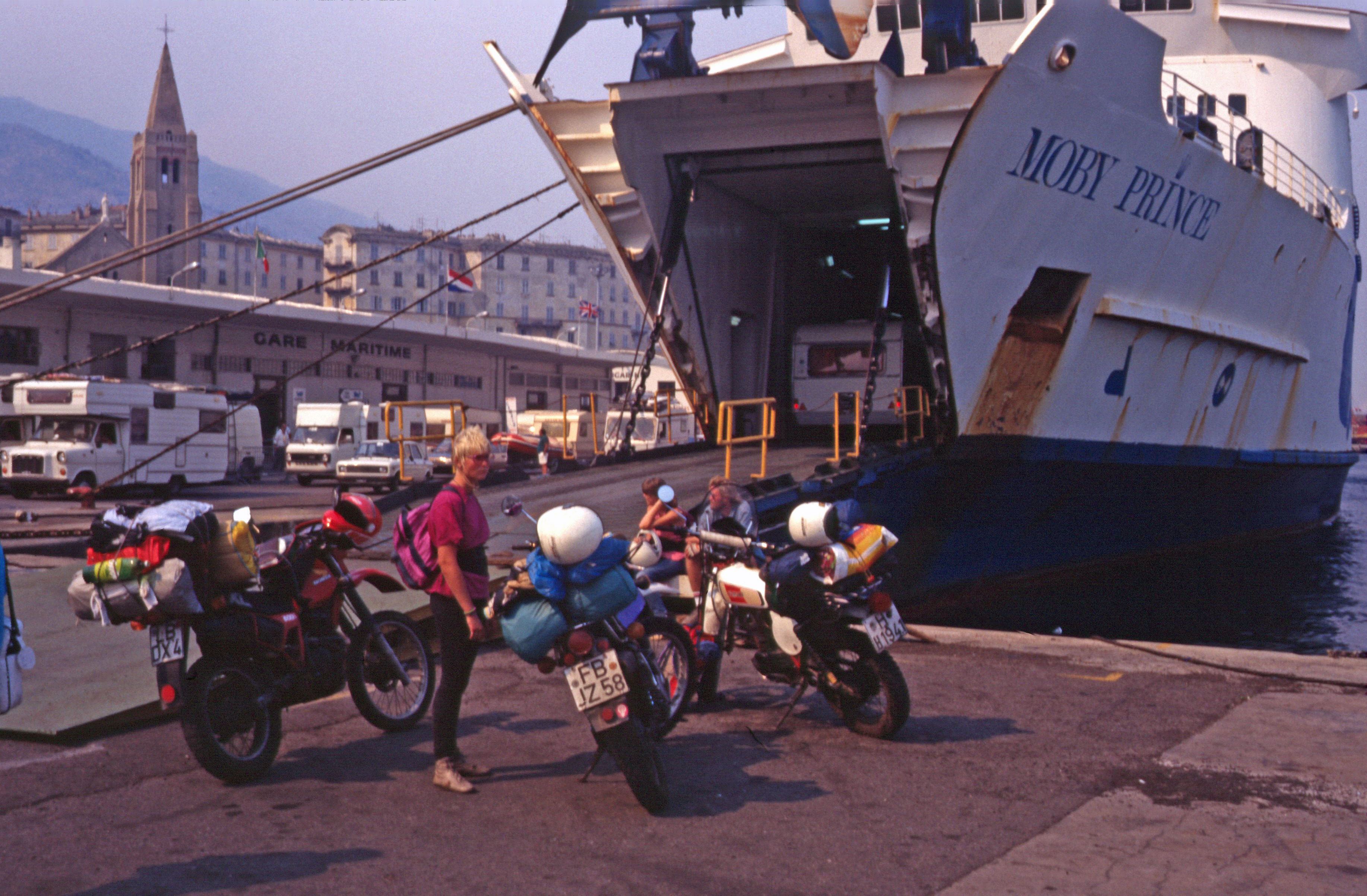 Moby Prince at Bastia in August 1987